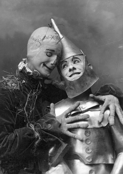 Photograph of Fred Stone as the Scarecrow and David C. Montgomery as the Tin Man in the stage extravaganza The Wizard of Oz